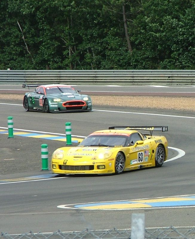 Corvette Racing's Chevrolet Corvette C6.R and Aston Martin Racing's Aston Martin DBR9 at the 2007 24 Hours of Le Mans